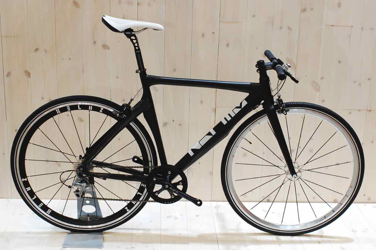 HELMZ H1 at it's first appearance in Dec. 2009